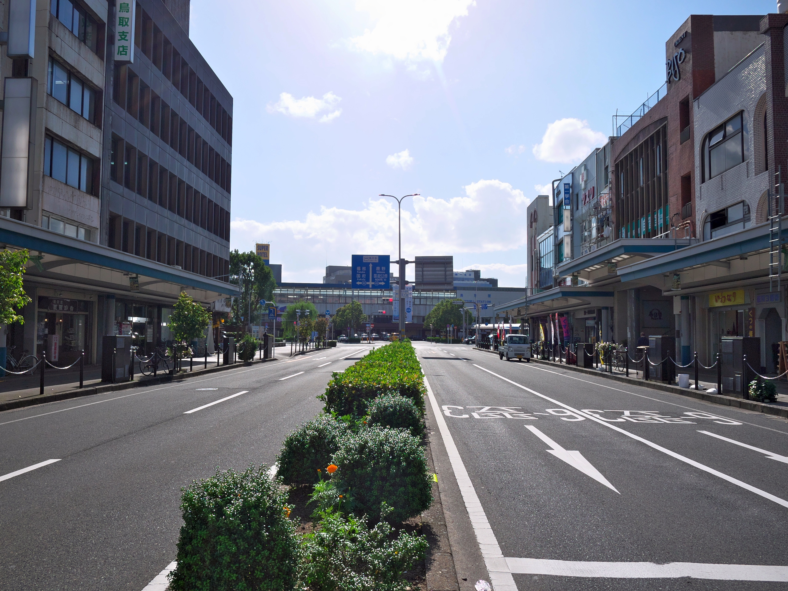 Tottori Prefectural Road Route 25 in Sakaemachi, Tottori, Tottori prefecture